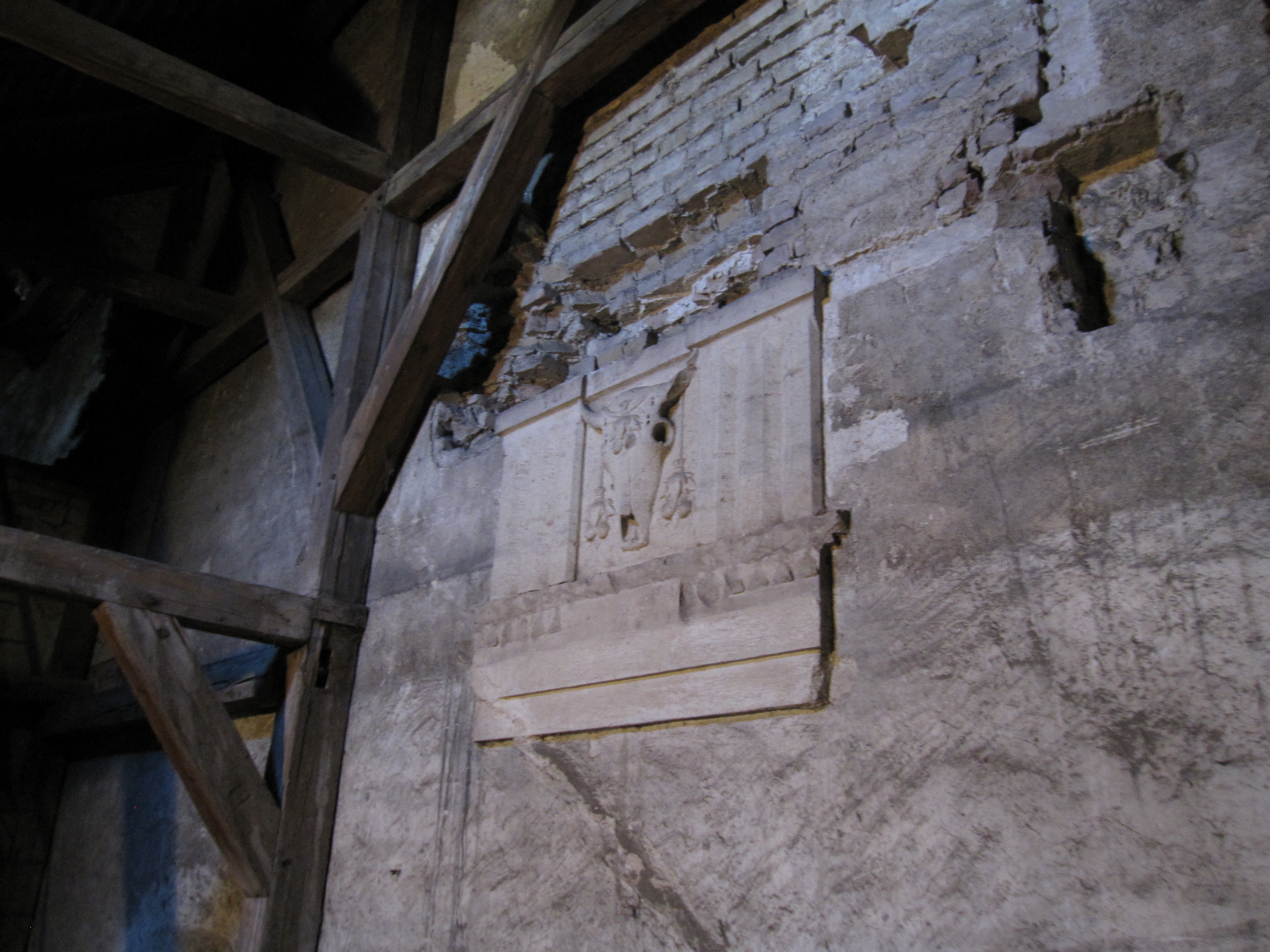 Sole remainding bucranium of a series on the former northern facade of Neugebäude Palace. The rest were taken away under the rule of empress Maria Theresa of Austria to the Gloriette of Schönbrunn Palace, where they are still located. To the left of it is a remaining door frame.